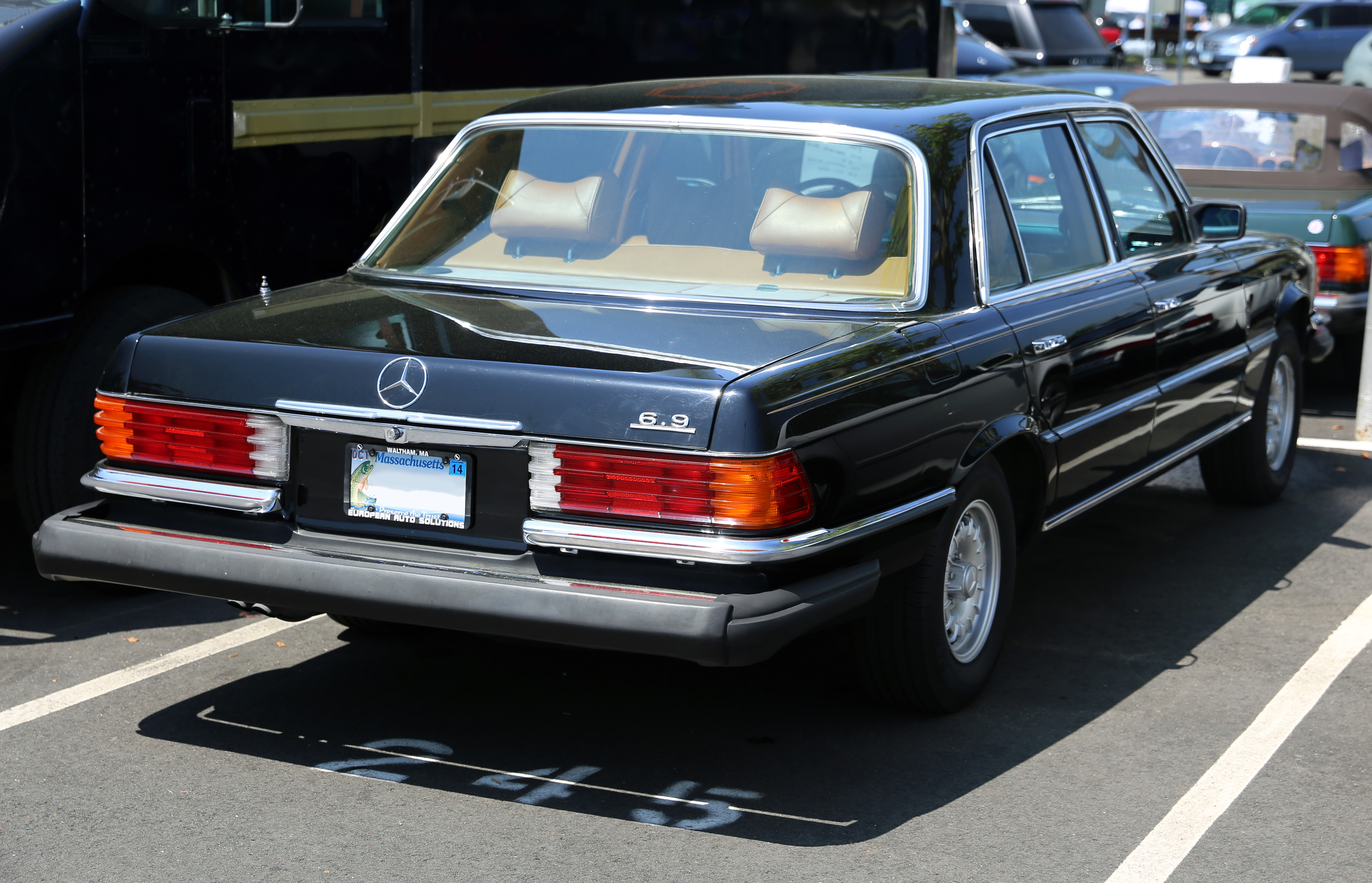 Rear of Mercedes-Benz 450SEL 6.9 in the parking lot of the 2013 Greenwich Concours d'Elegance.